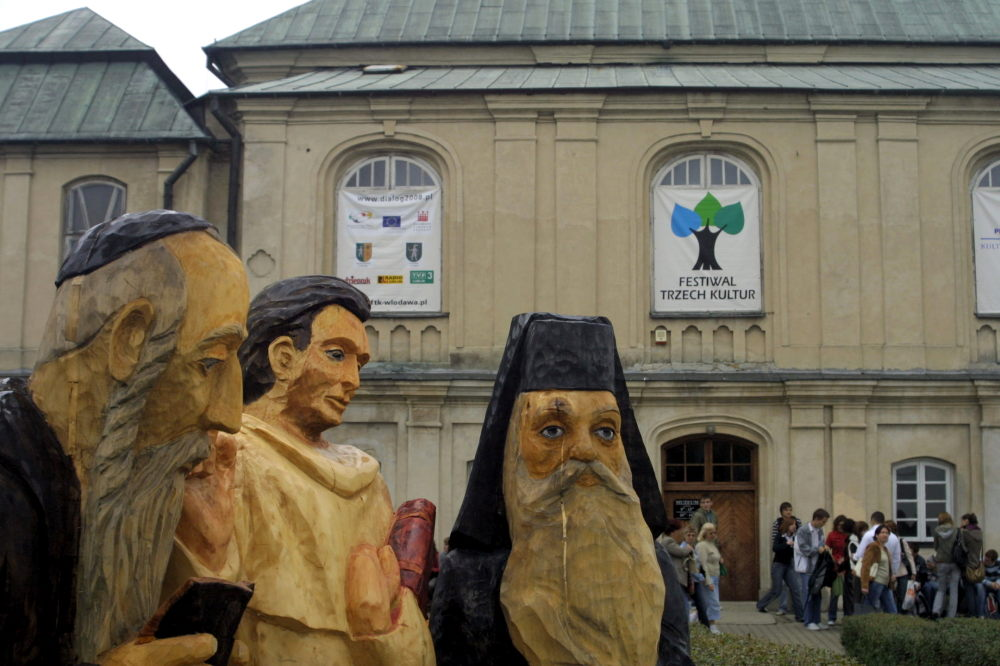 10th Festival of Three Cultures in Włodawa, Poland. Folk art - wooden sculptures. The Great Synagogue in the background.